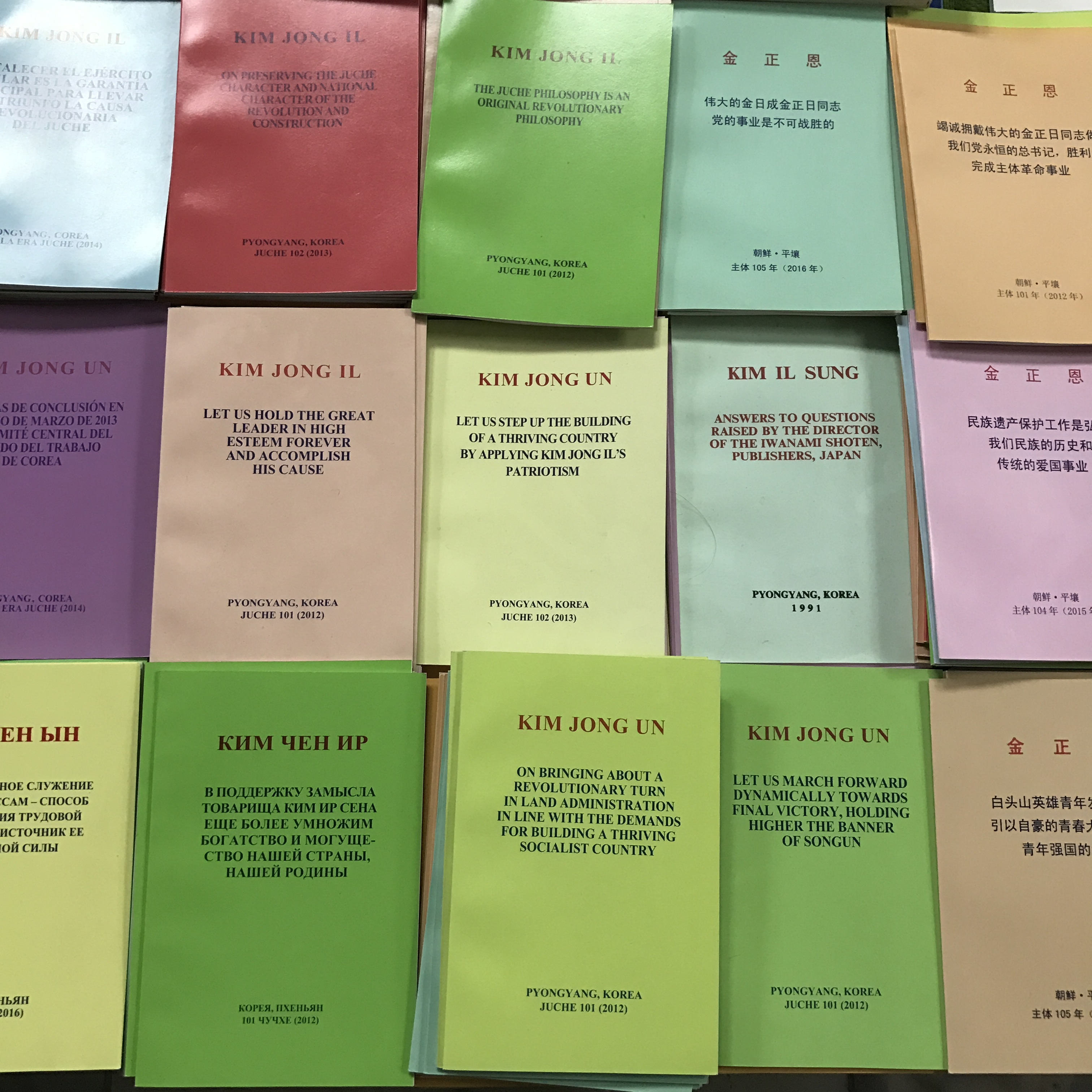 Books written by Kim Il-sung, Kim Jong-il and Kim Jong-un in English, Chinese and Russian.